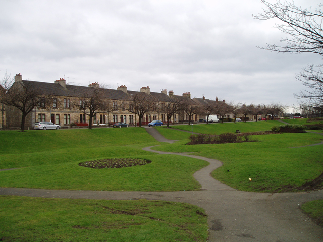 Bonnybridge Terraces. These 19th Century houses beside a picturesque park in the heart of this industrial town which lies on the Bonny Water. The town developed in the 19th century in association with a Saw Mill and Paper Mill and Iron Foundries which used the river and the nearby Forth and Clyde Canal.